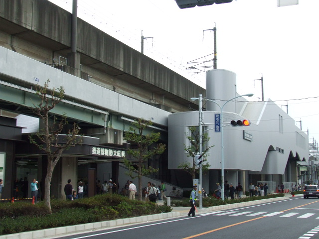 Tetsudō-Hakubutsukan Station on the New Shuttle Ina Line in Saitama Prefecture, Japan